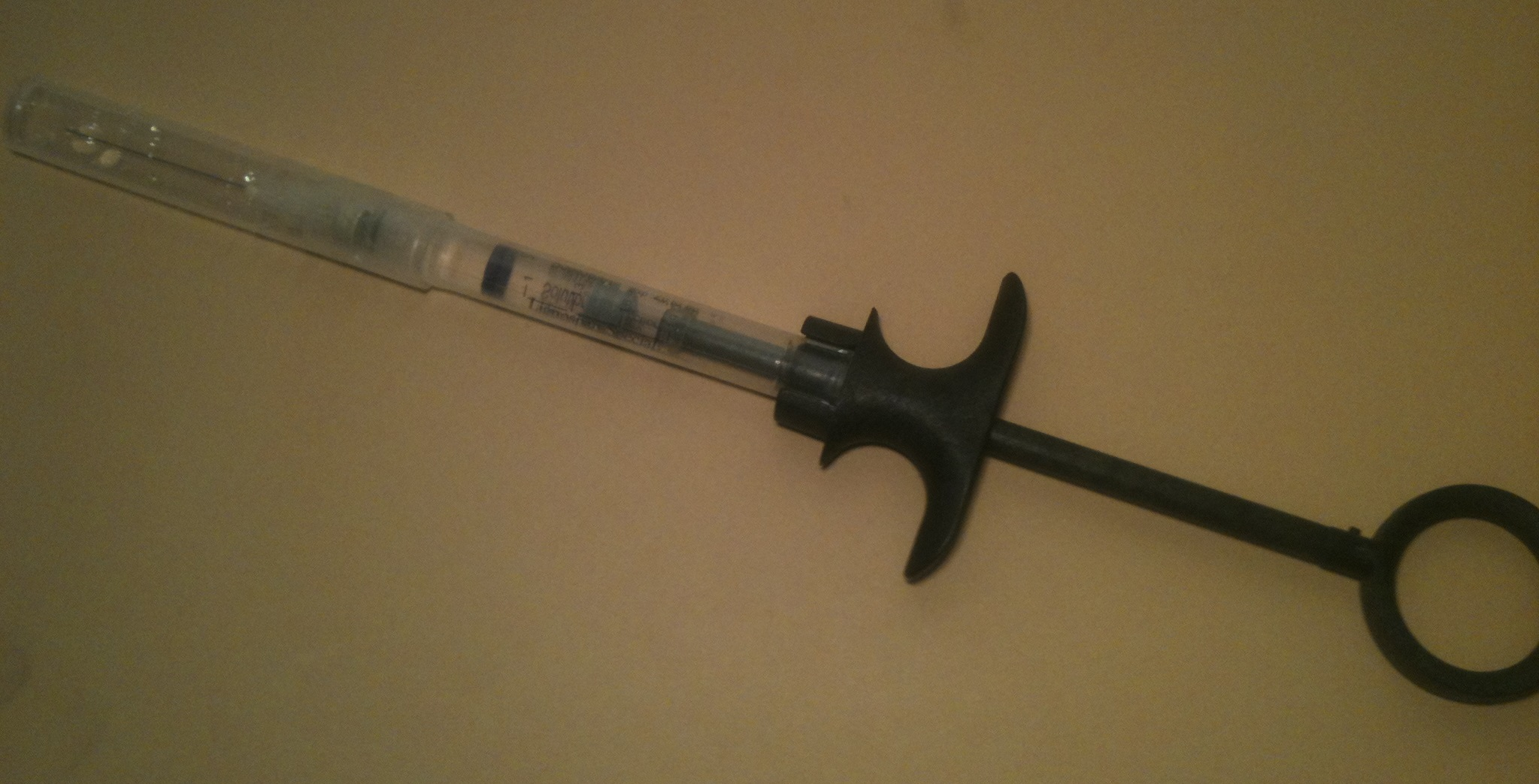 "Ultra safety plus" syringe in closed position